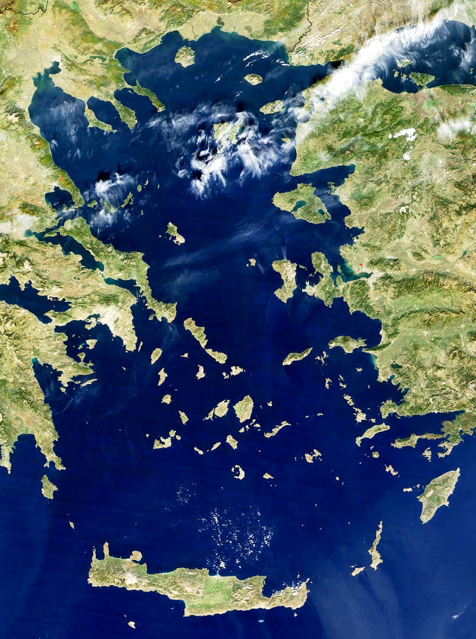 Sattelite image of the Aegean Sea